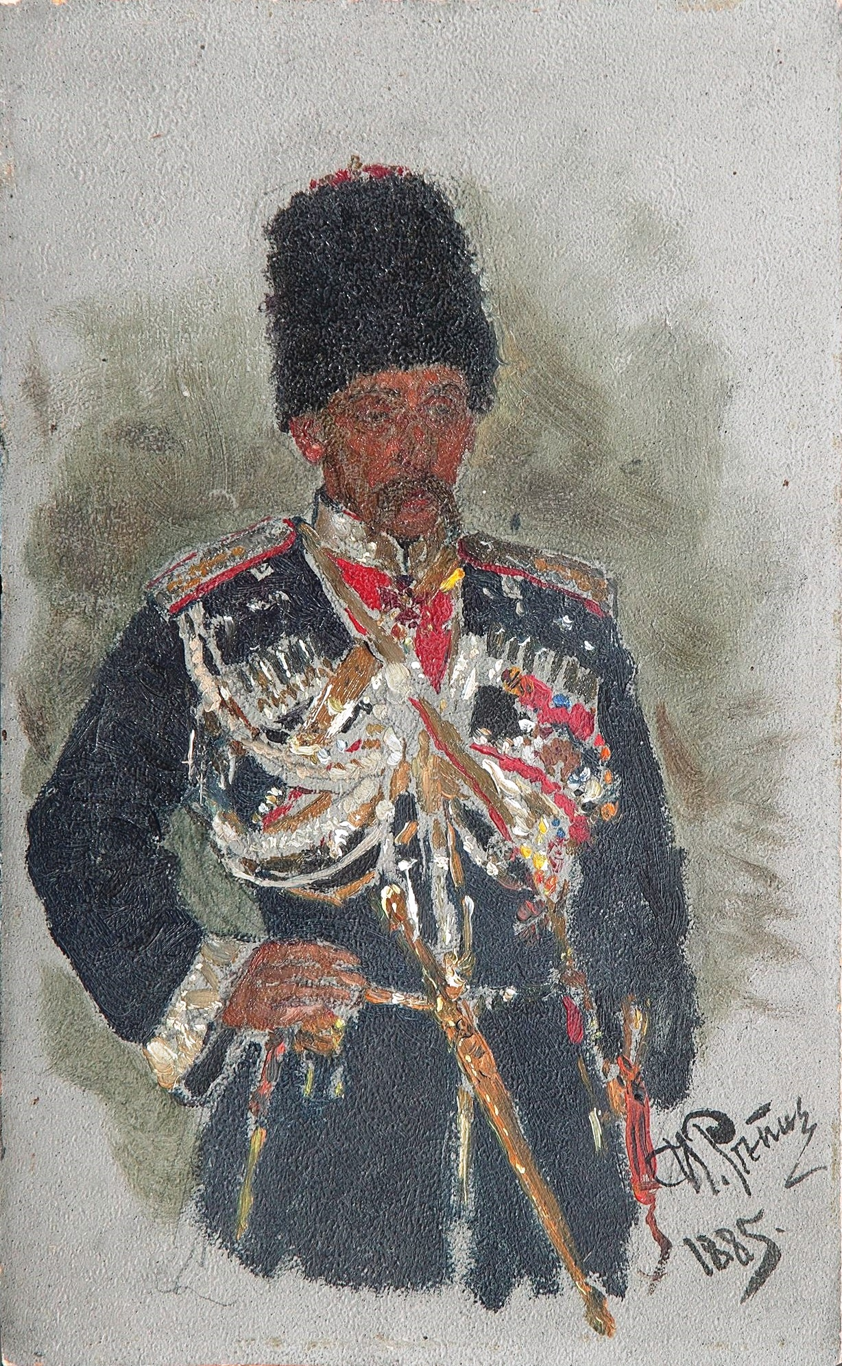 Pyotr Cherevin